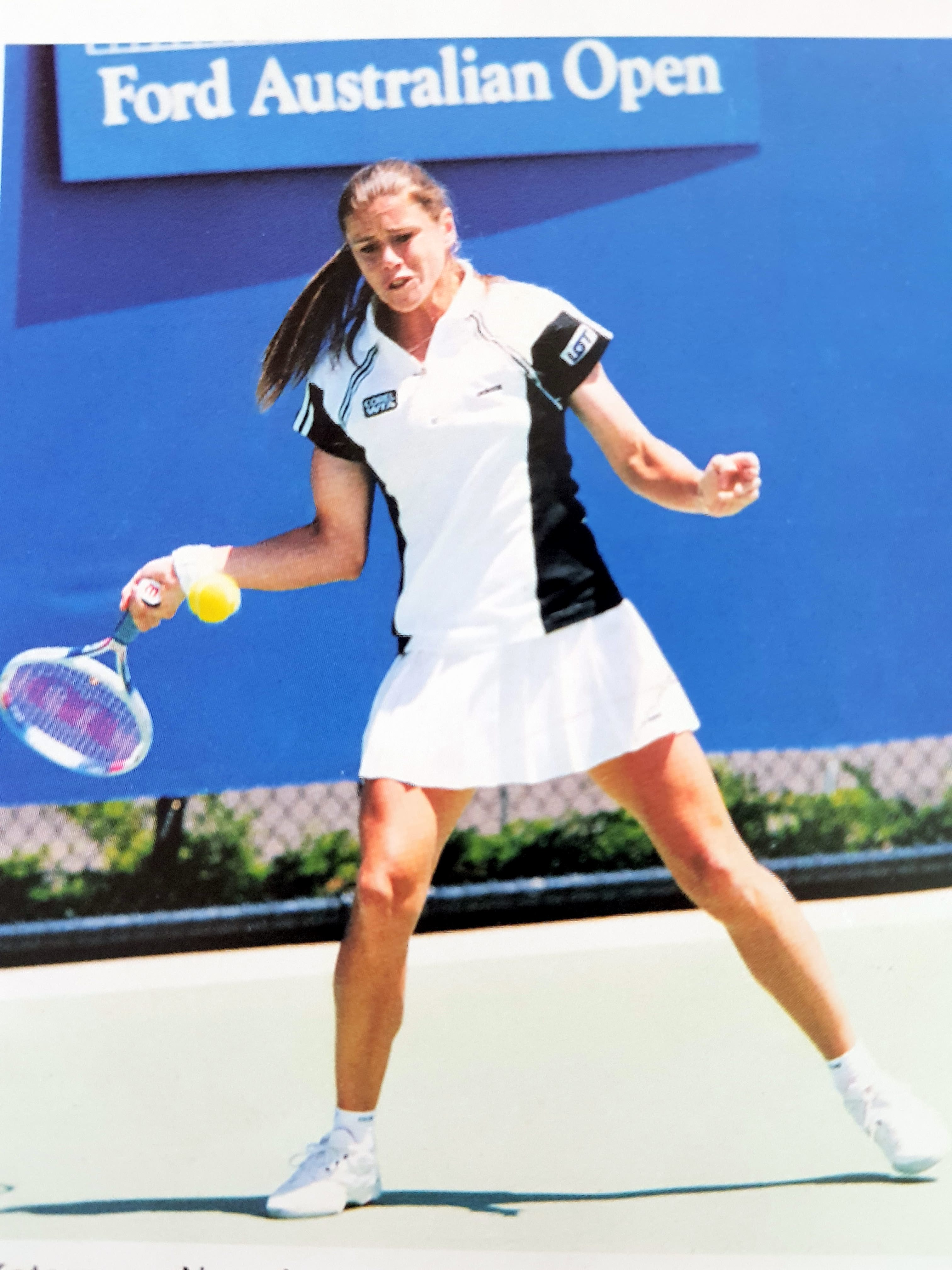 Katarzyna Nowak